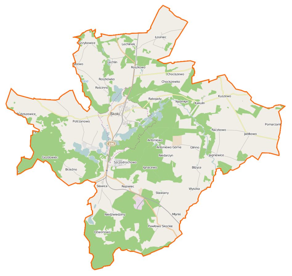 Map of Gmina Skoki, Poland This map of Skoki (gmina) was created from OpenStreetMap project data, collected by the community. This map may be incomplete, and may contain errors. Don't rely solely on it for navigation.